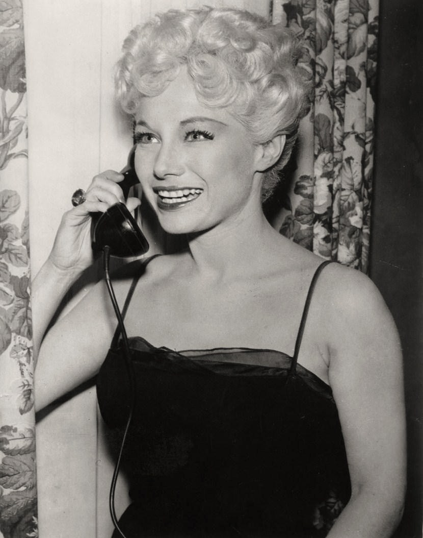 Joyce Jameson in the TV series General Electric Theater, episode Blaze of Glory - publicity still (original image damaged, modified and cropped)